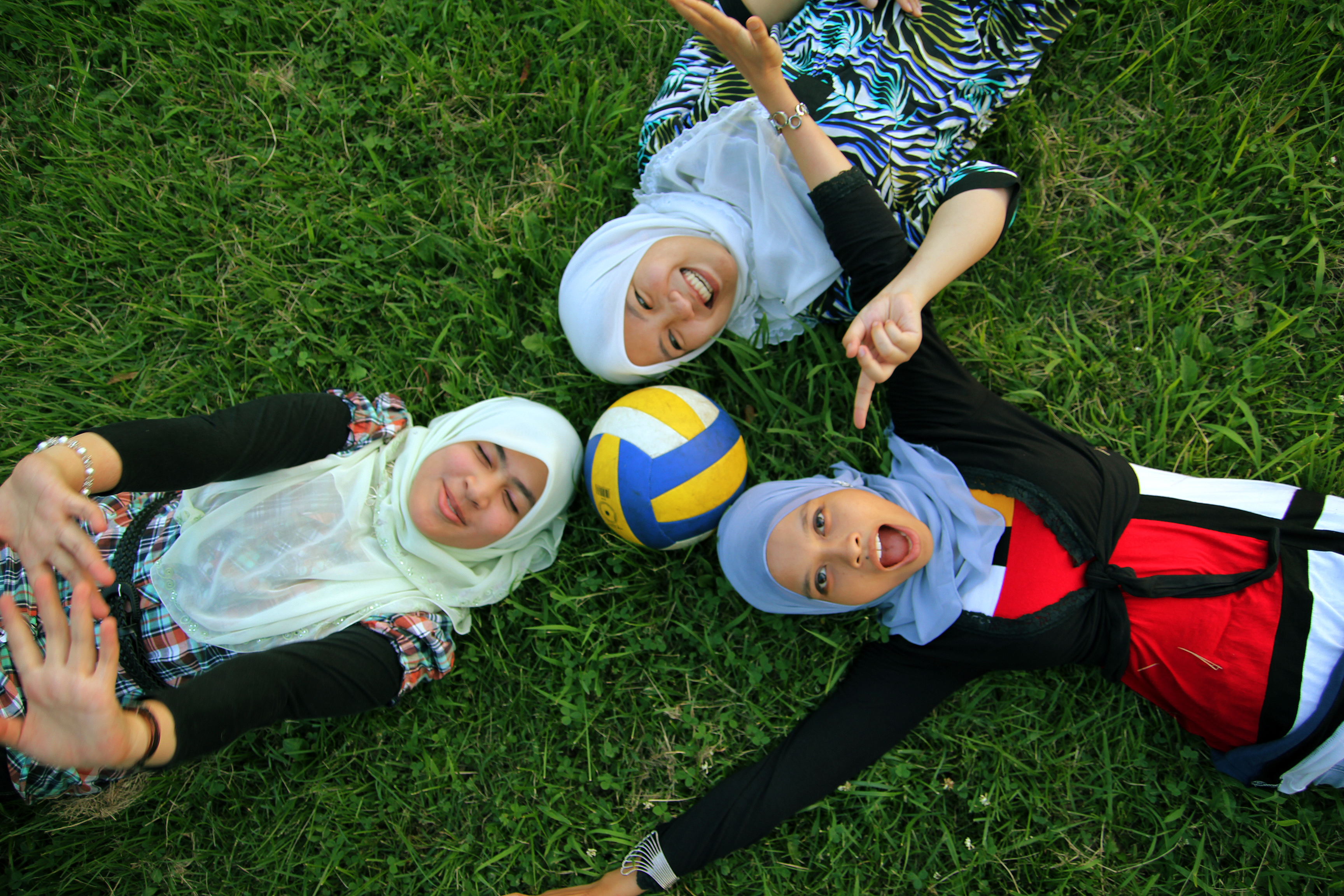 Three Malay Muslim girls wearing tudungs (the Malay language term for an Islamic headscarf).